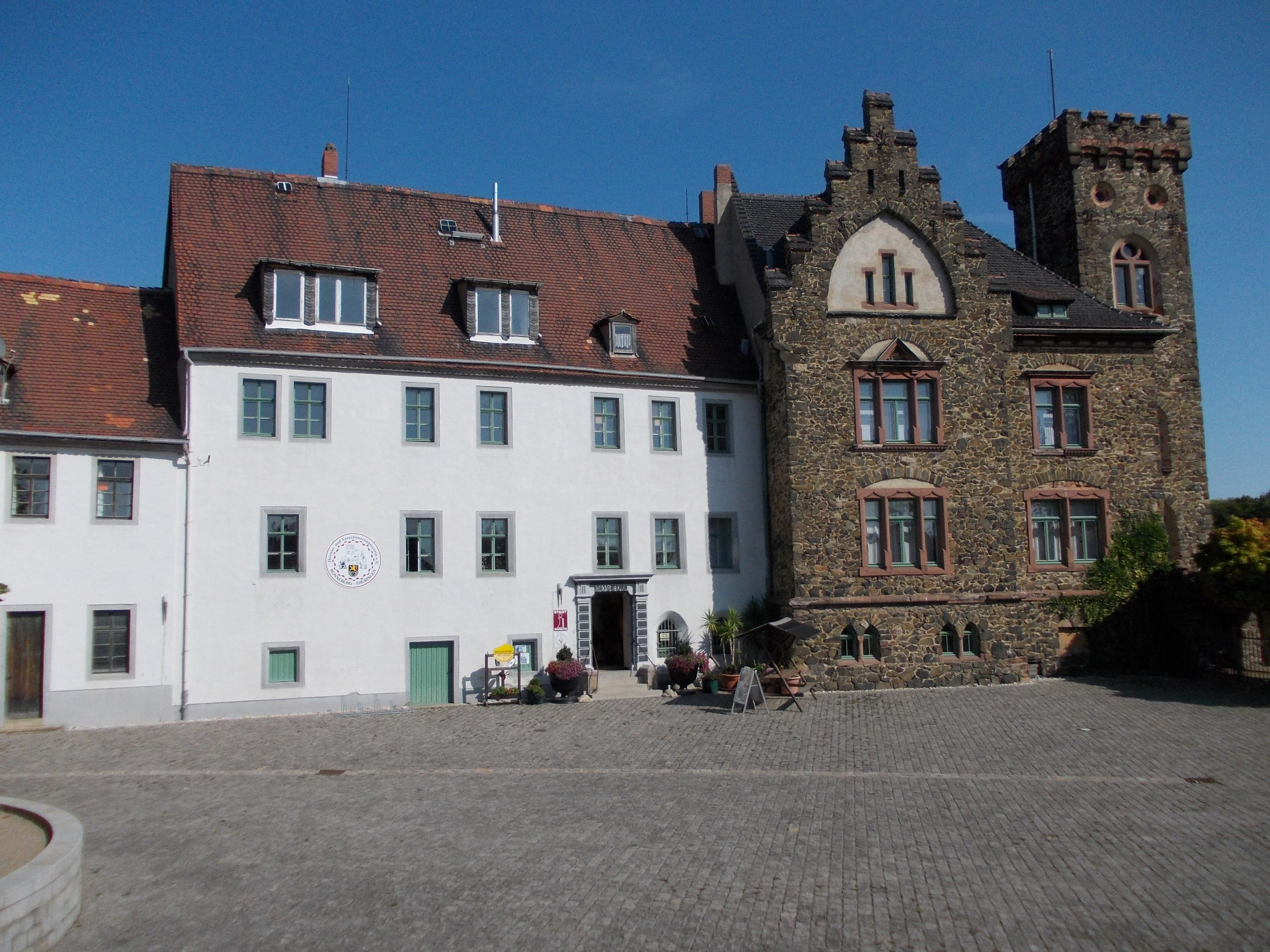 Ronneburg Castle (Greiz district, Thuringia) with the tower built in 1898-1900 as a home for the local judge and the museum